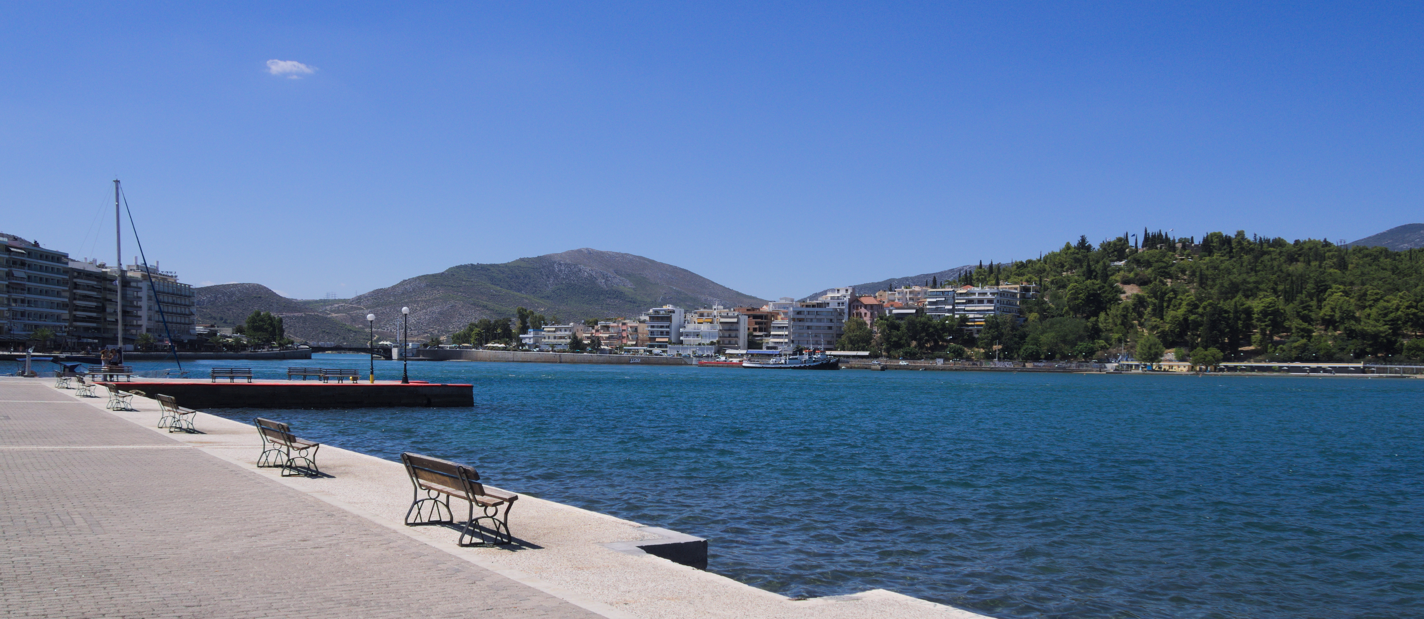 The promenade of Chalkida and Evripos strait.